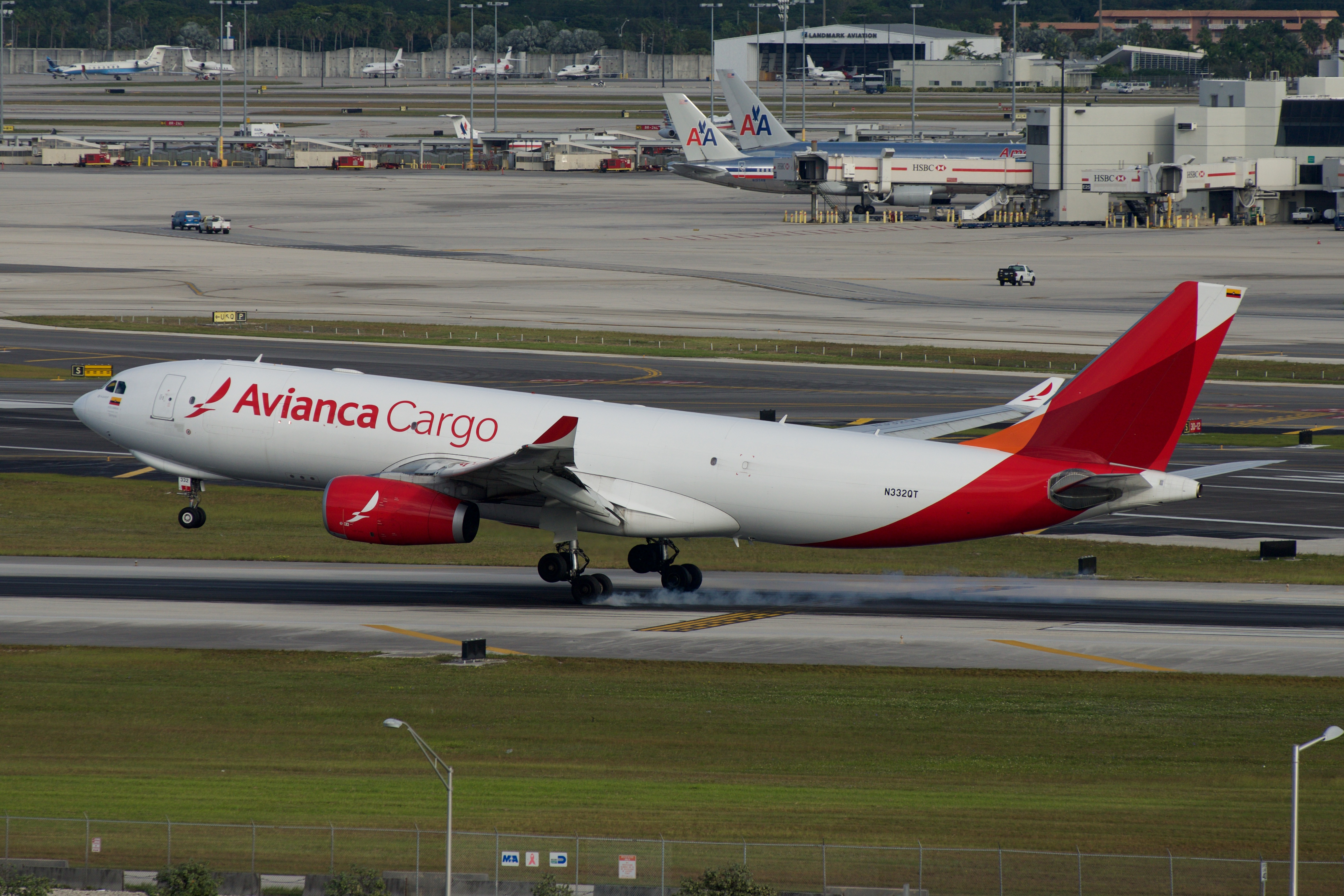 Touchdown! MIA